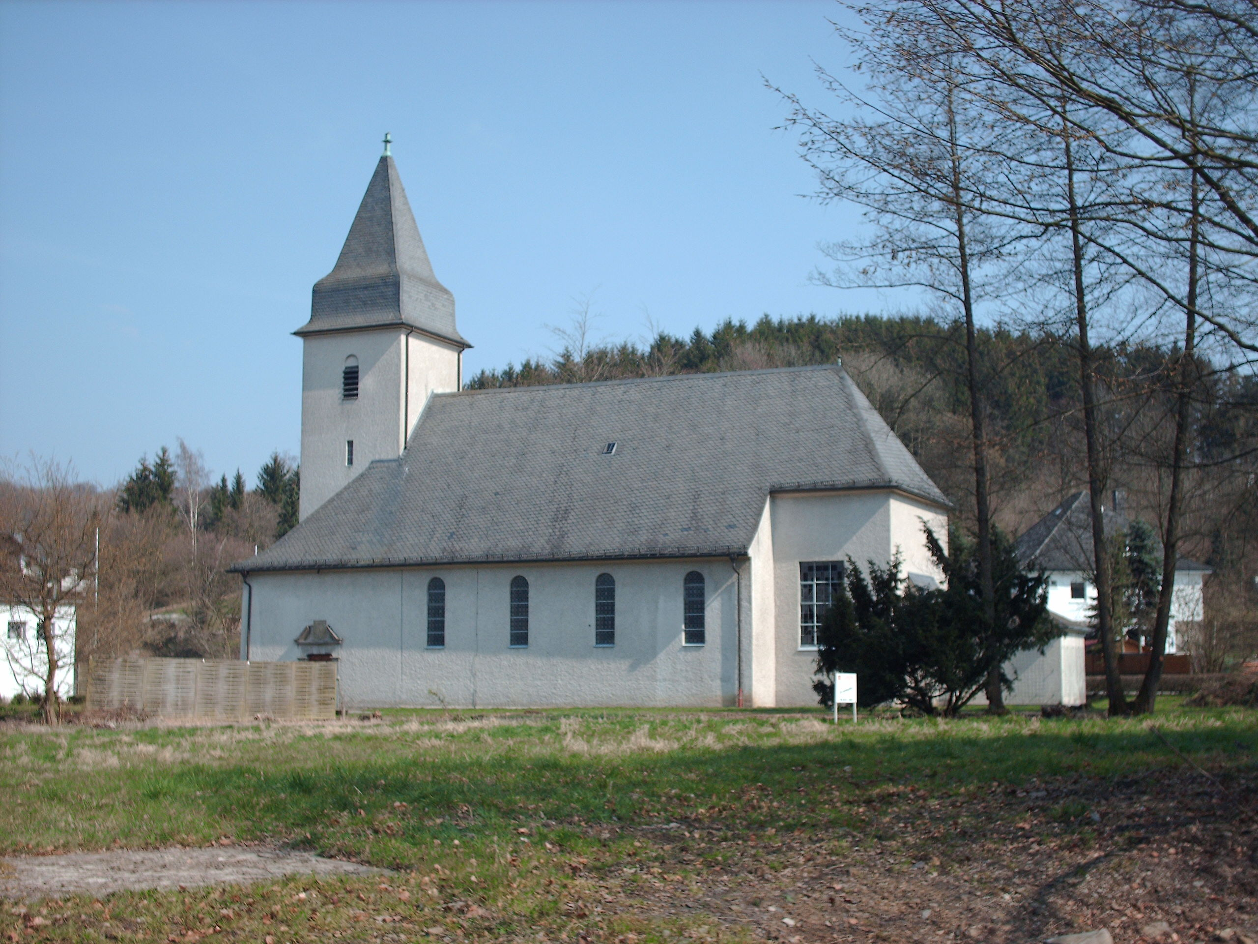 St. Hubertus church, Sundern, Germany check usage